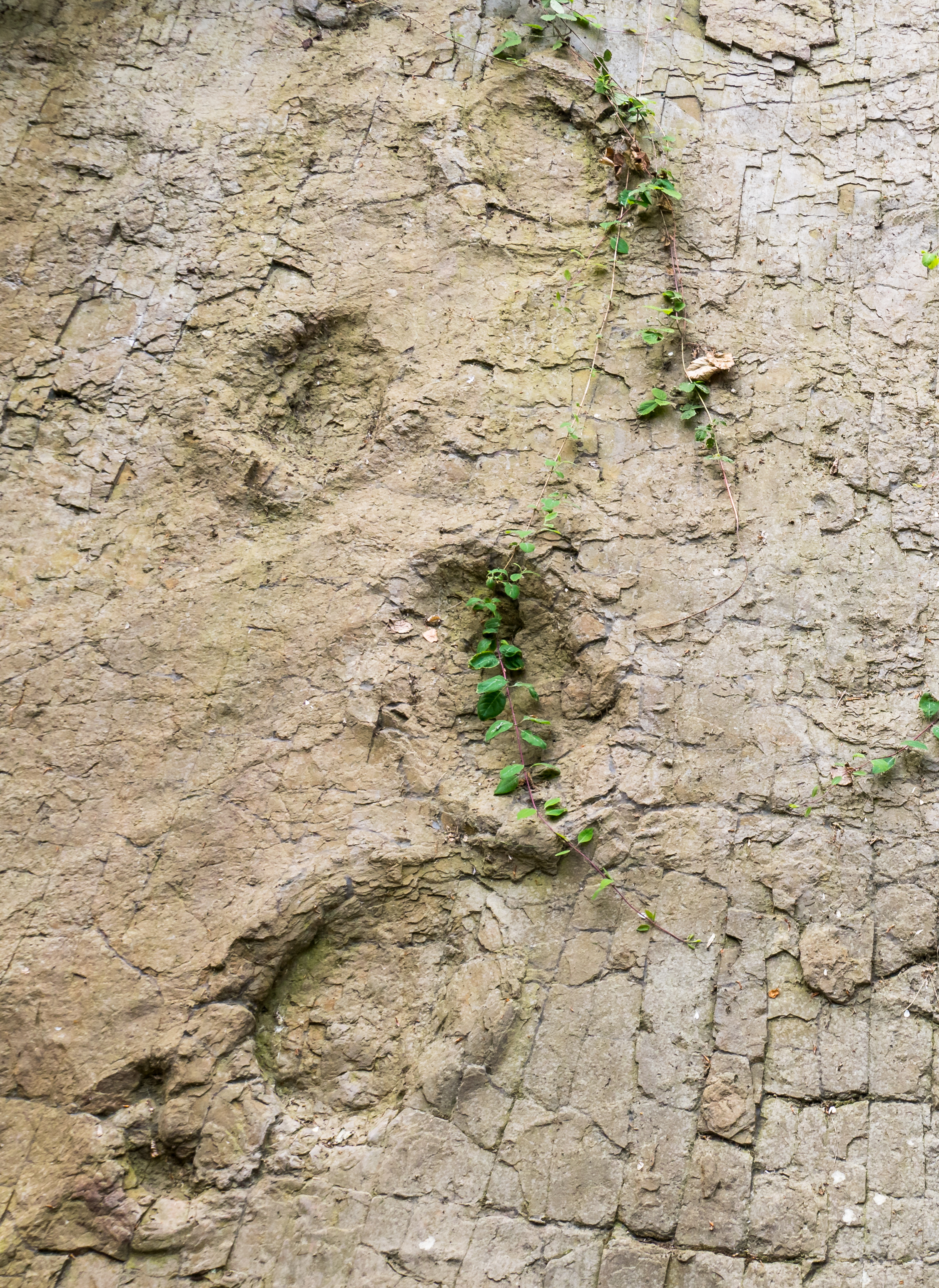 Dinosaur tracks (Sauropoda) at Barkhausen. Bad Essen, Osnabrück Land, Lower Saxony, Germany